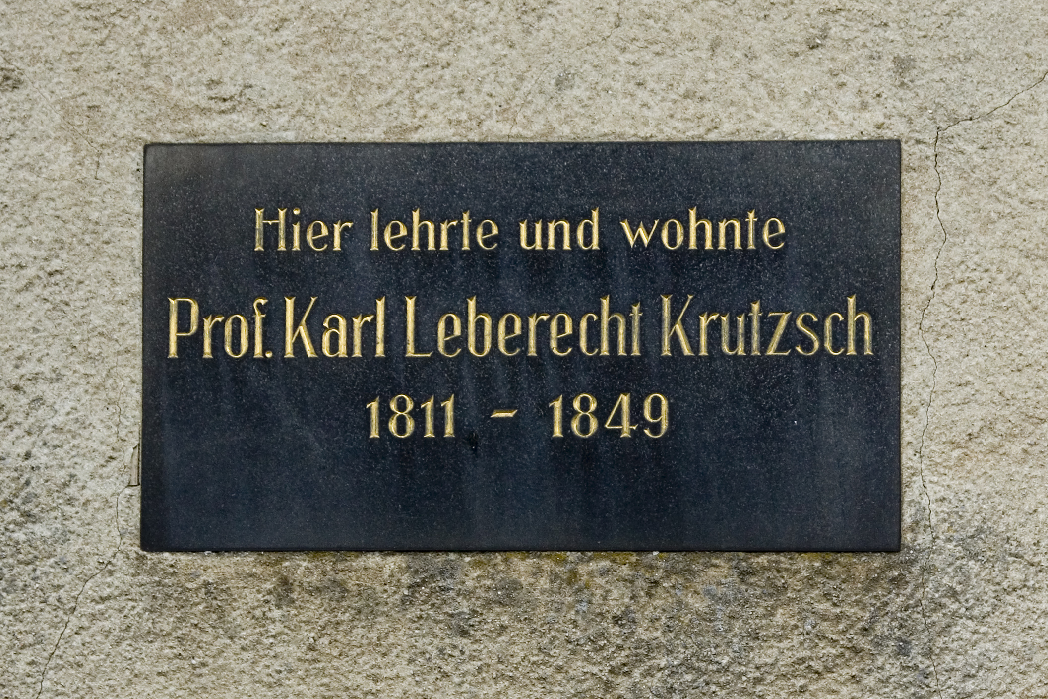 Karl Leberecht Krutzsch, plaque in Tharandt, at the house where he lived and worked